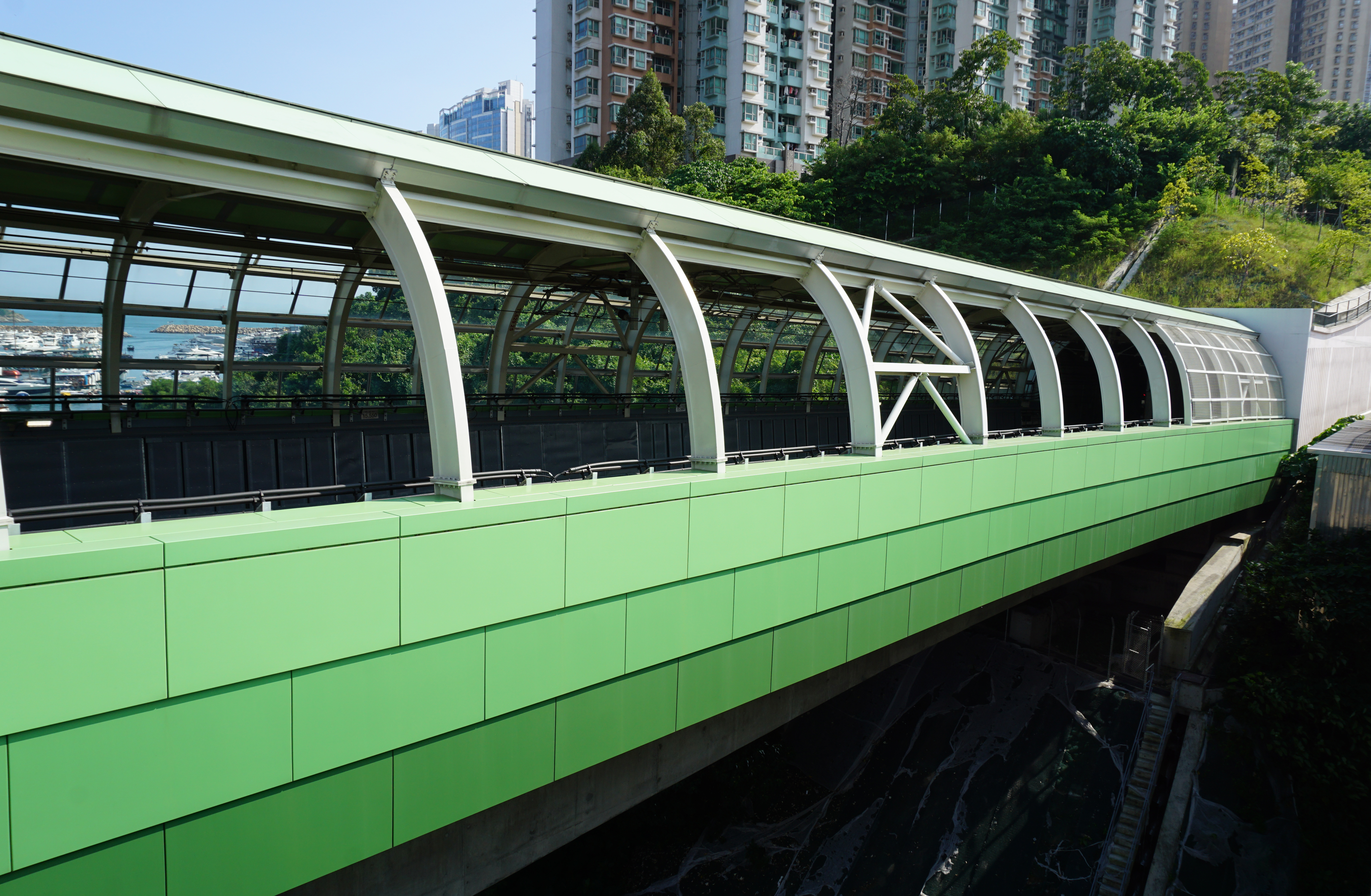 Trains tunnel in Ap Lei Chau, Hong Kong.